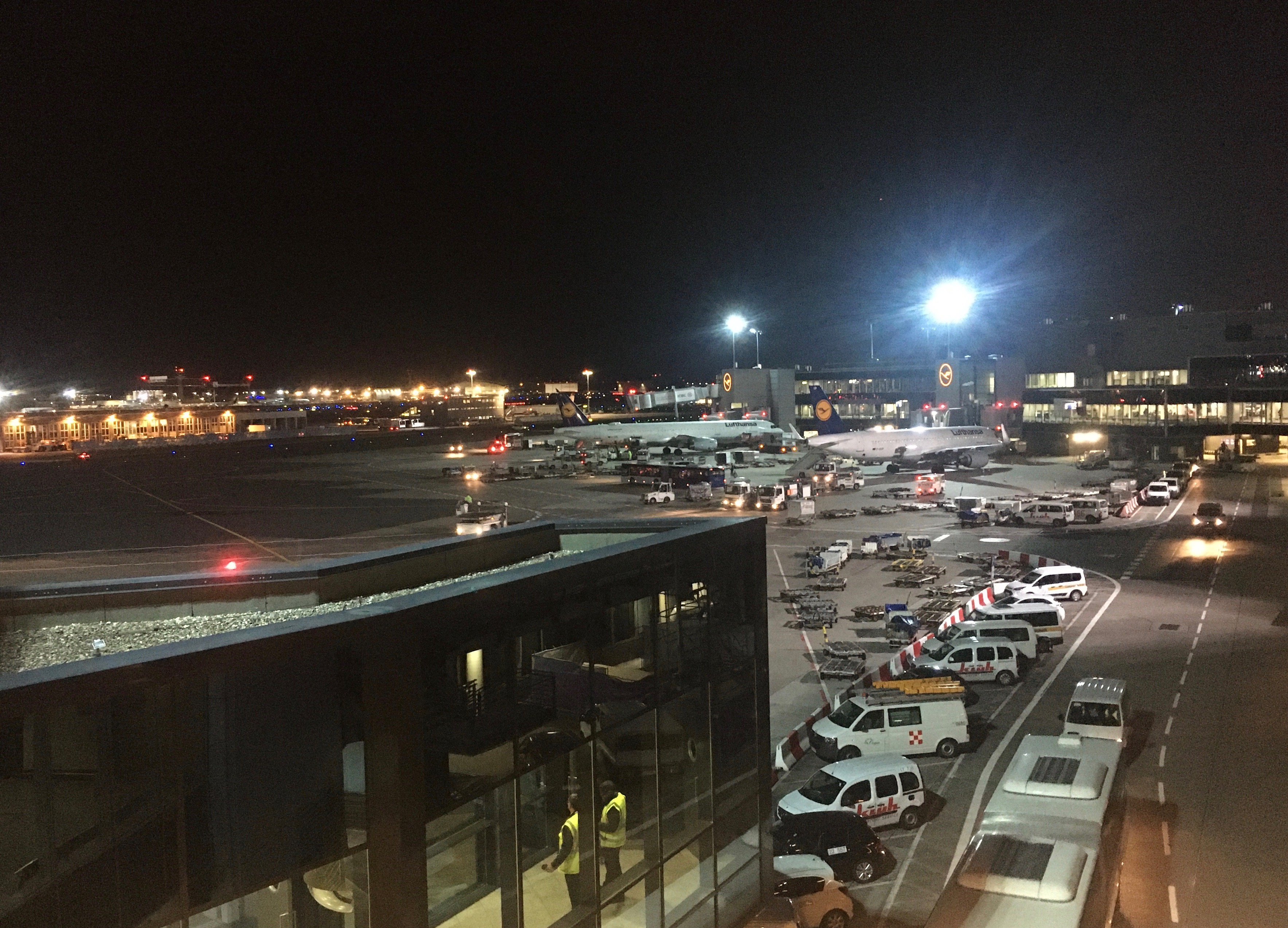 Frankfurt Main Airport - service cars, terminal